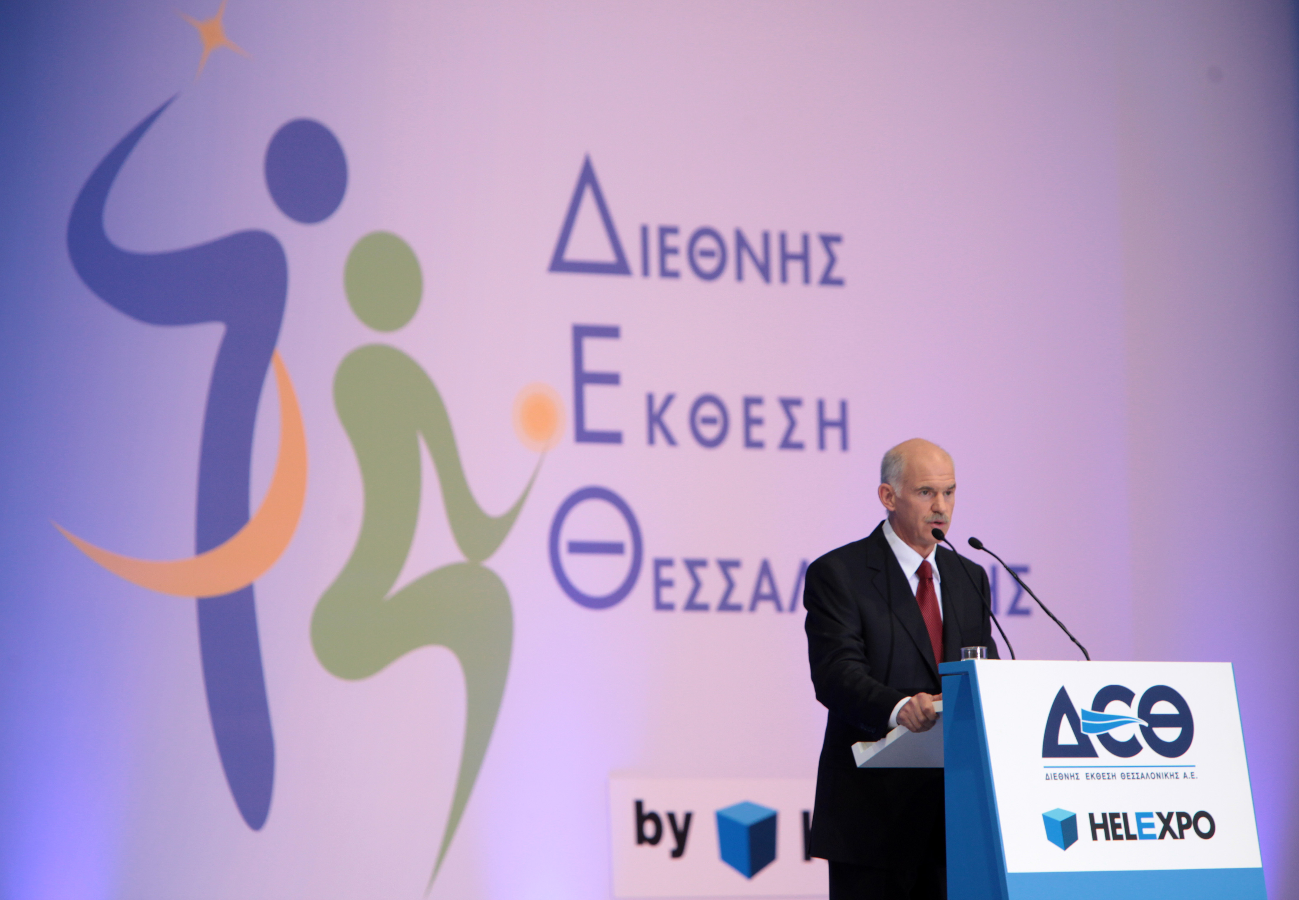 George Papandreou (junior) on ΔΕΘ opening